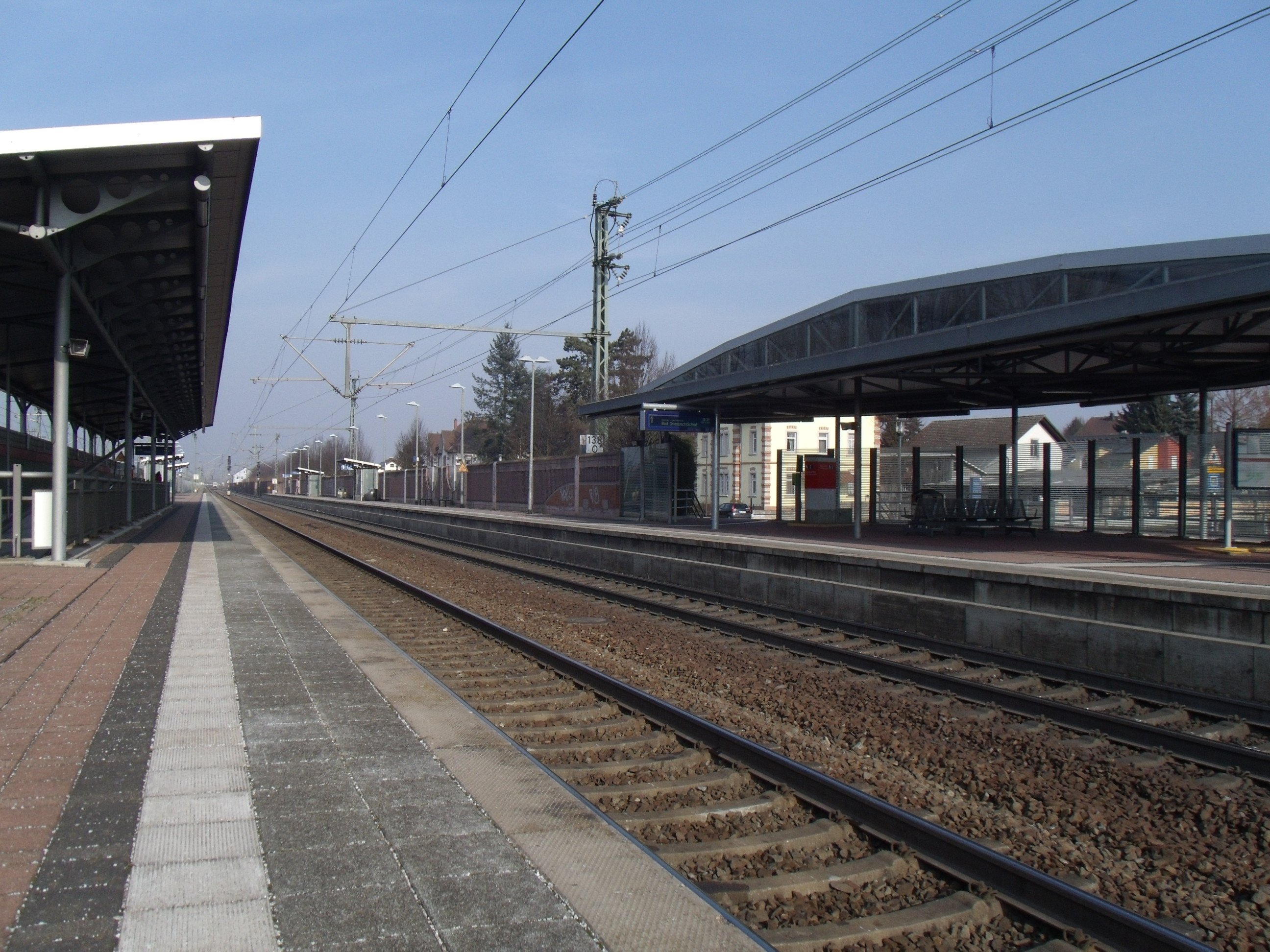 Appenweier station, tracks toward Karlsruhe from platform 2